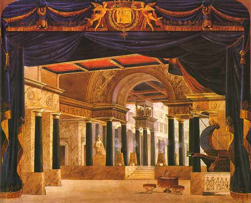 Set design for the opera Le siège de Corinthe, Paris, 1826. This comes from my collection and was scanned by me. Mrlopez2681 03:58, 2 January 2007 (UTC)